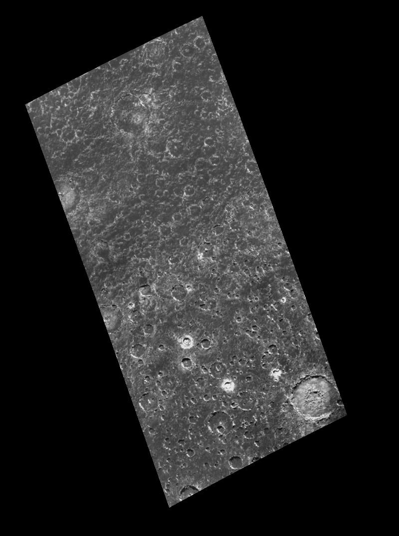 Callisto Keelut crater, from NASA Planetary Photojournal [1]